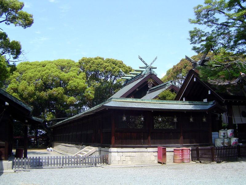 Otori shrine,the main temple, Sakai.